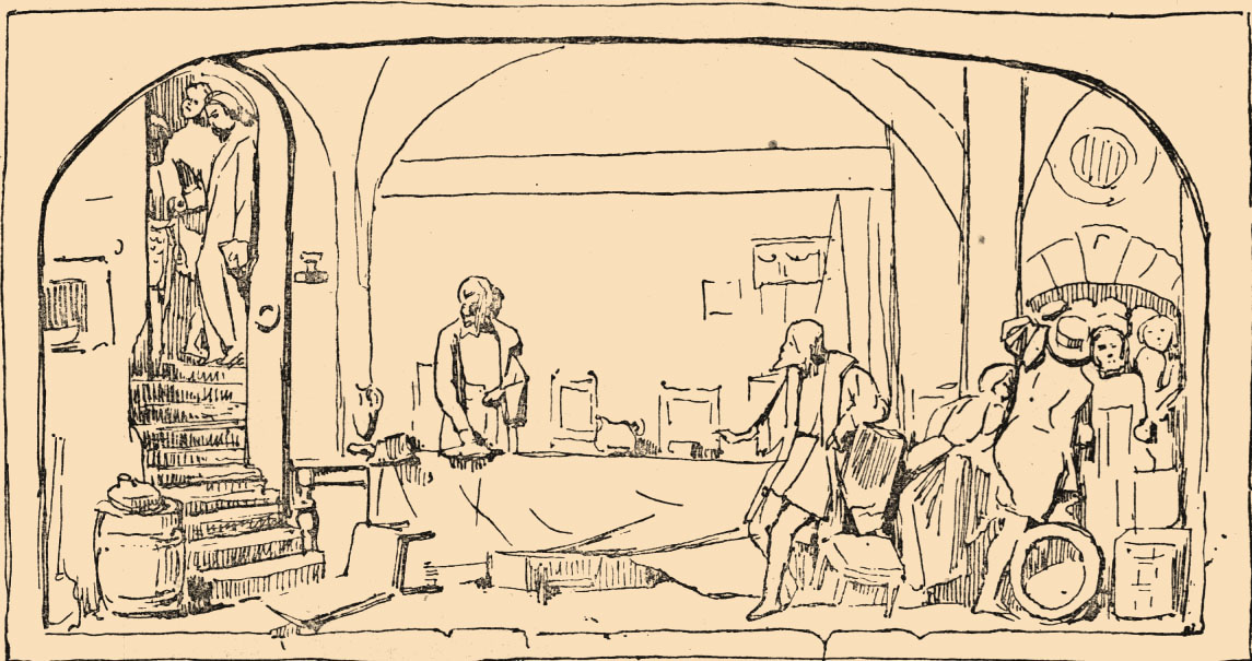 Illustration from Brockhaus and Efron Jewish Encyclopedia (1906—1913)